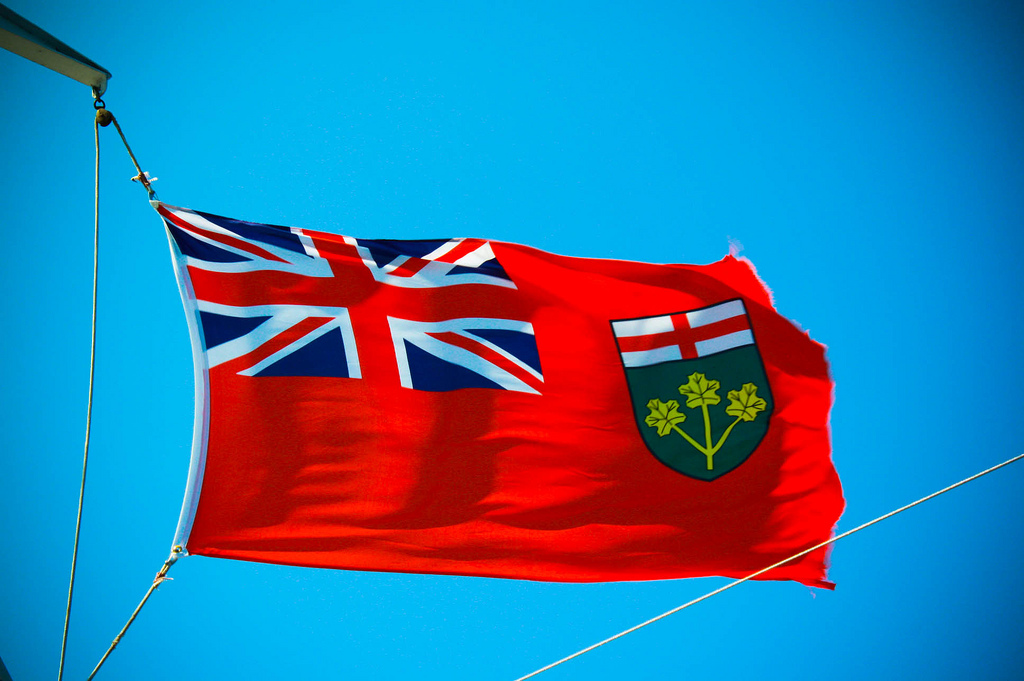 A photograph of the Flag of Ontario. Photo taken on 27 August 2010.